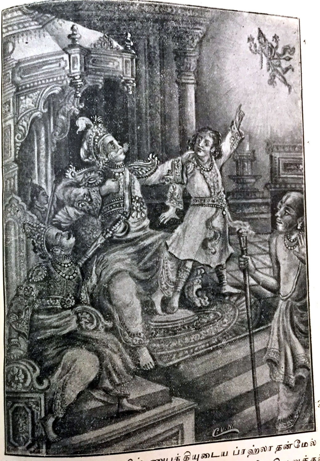 THESE ARE FROM A 100 YEAR OLD BOOK, available in the British library in London.